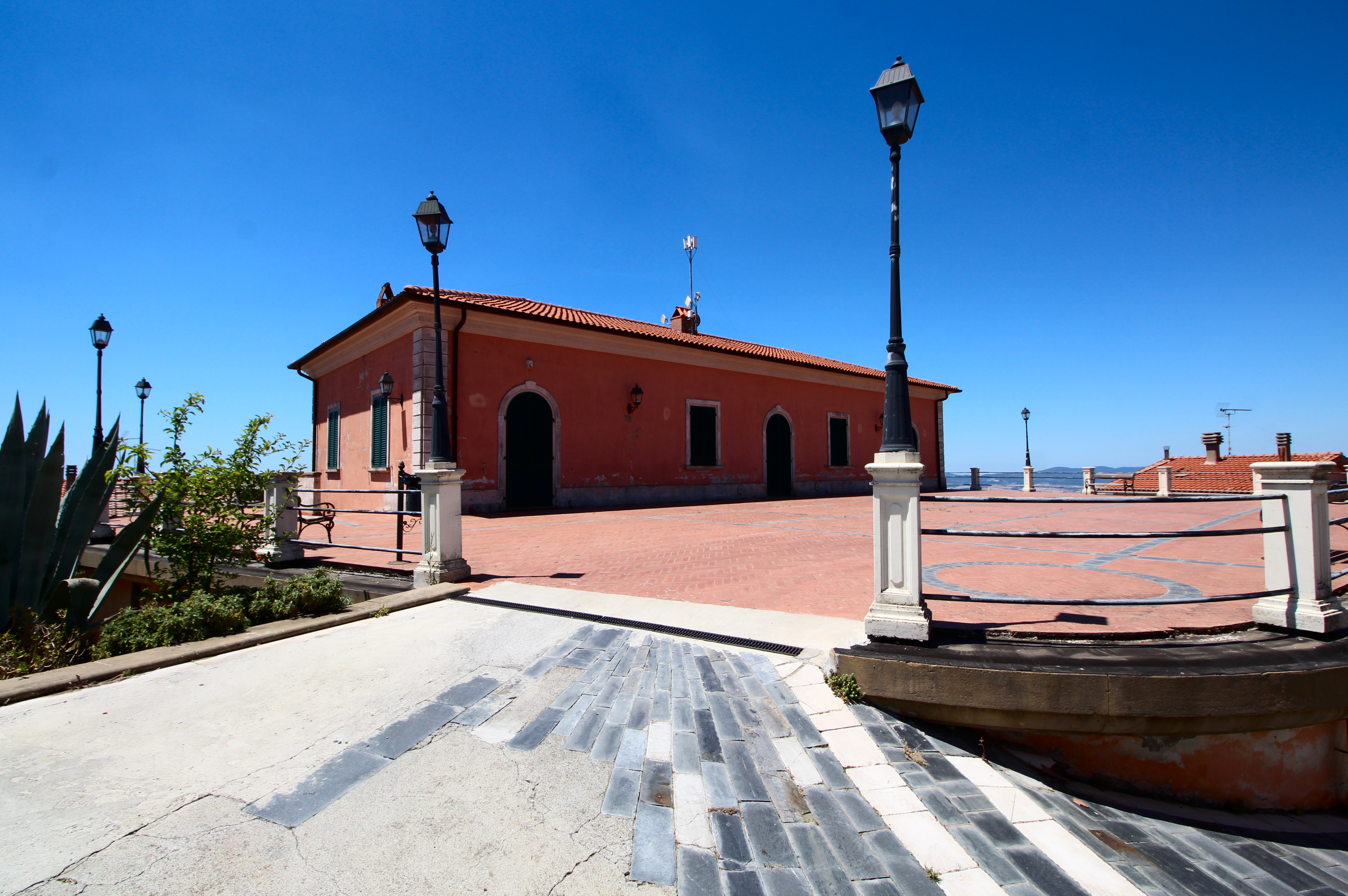 Museum Ecomuseo dell'Alabastro, Castellina Marittima, Province of Pisa, Tuscany, Italy